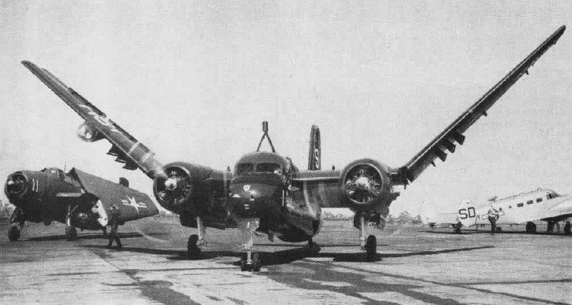 A U.S. Navy Grumman S2F-1 Tracker of Anti-Submarine Squadron 26 (VS-26) at Naval Air Station Norfolk, Virginia (USA), in 1954. At left is the predecessor of the Tracker, a Grumman TBM-3E Avenger. In the background is a Beech JRB of VS-36 "Gray Wolves".